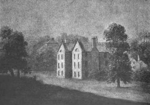 Downing Hall, the home of Thomas Pennant, as the house appeared in 1785.